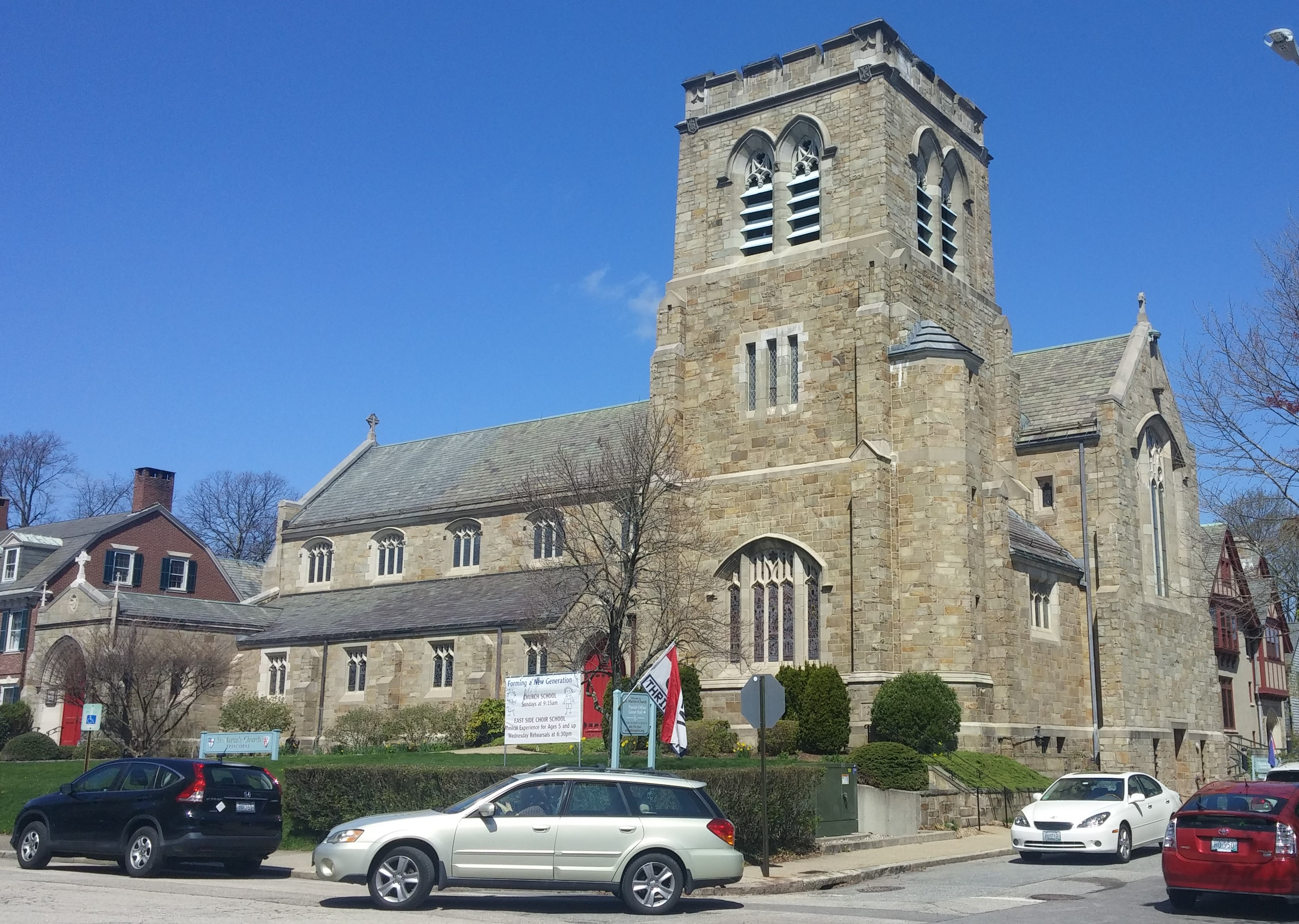 St. Martin's Church, Providence, Rhode Island